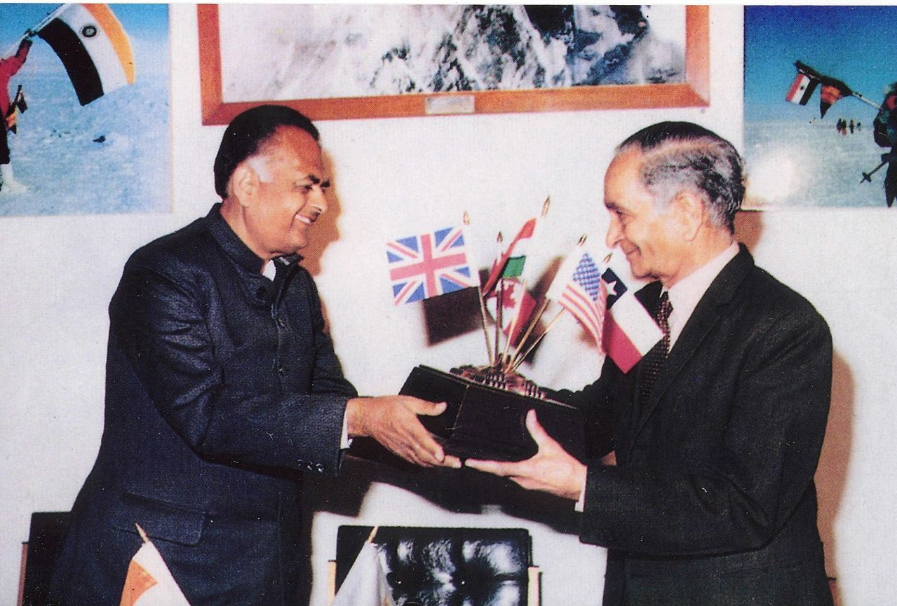 From the personal collection of Col. JK Bajaj, SM, VSM, FRGS Converted from slides by Col. Bajaj.